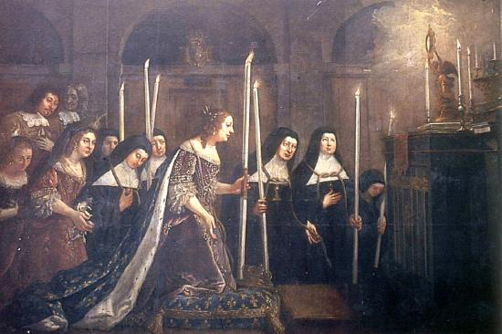 Anne of Austria, Queen of France and regent for Louis XIV, with Mechtilde of the Holy Sacrament (Catherine de Bar) adoring the Holy Eucaristy in 1654, when the Benedictine of the Perpetual Adoration were moved to their new monastery at Paris.